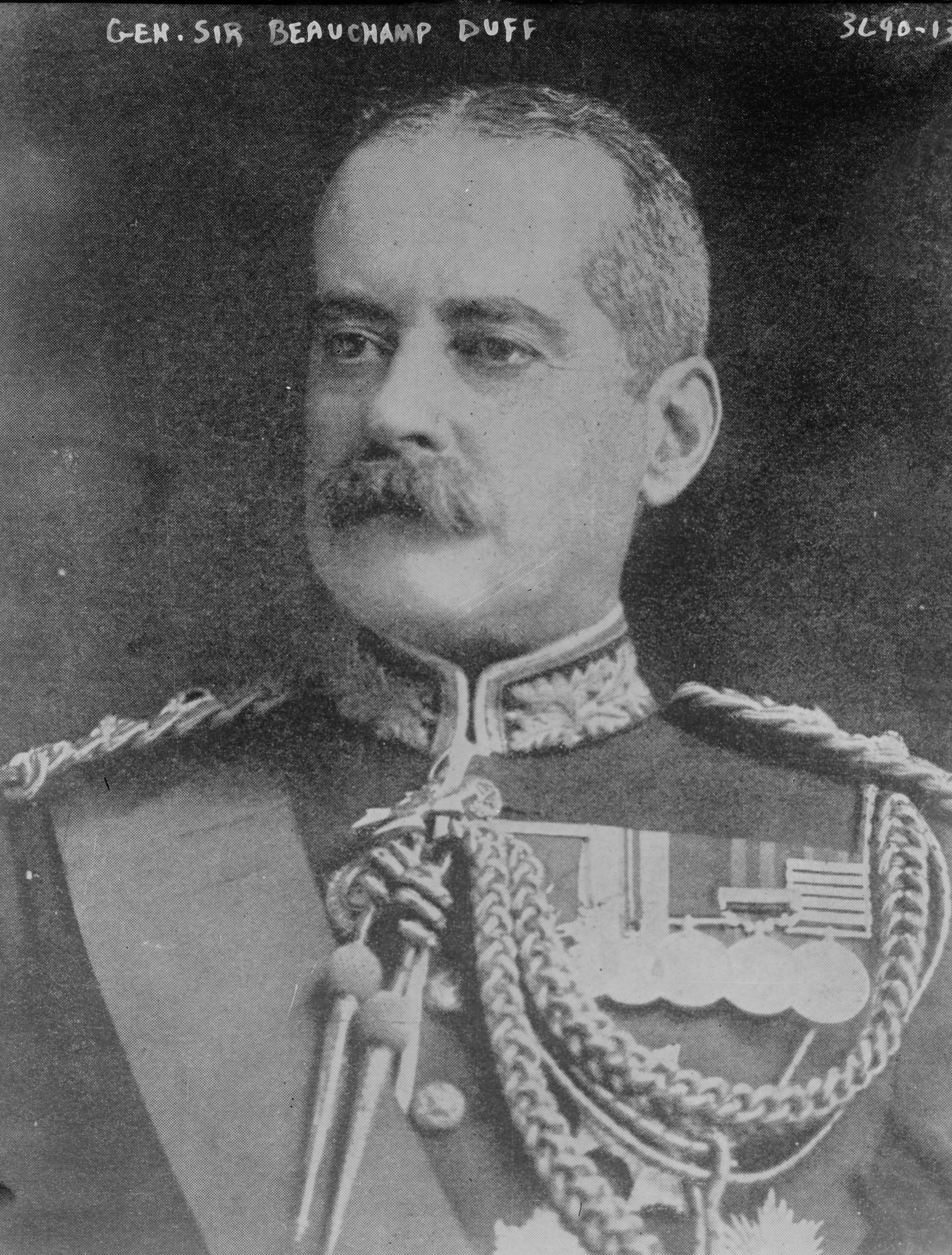 Bain News Service,, publisher. Gen. Sir Beauchamp Duff [between ca. 1910 and ca. 1915] 1 negative : glass ; 5 x 7 in. or smaller. Notes: Title from unverified data provided by the Bain News Service on the negatives or caption cards. Forms part of: George Grantham Bain Collection (Library of Congress). Format: Glass negatives. Repository: Library of Congress, Prints and Photographs Division, Washington, D.C. 20540 USA, General information about the Bain Collection is available at Higher resolution image is available (Persistent URL): Call Number: LC-B2- 3690-13